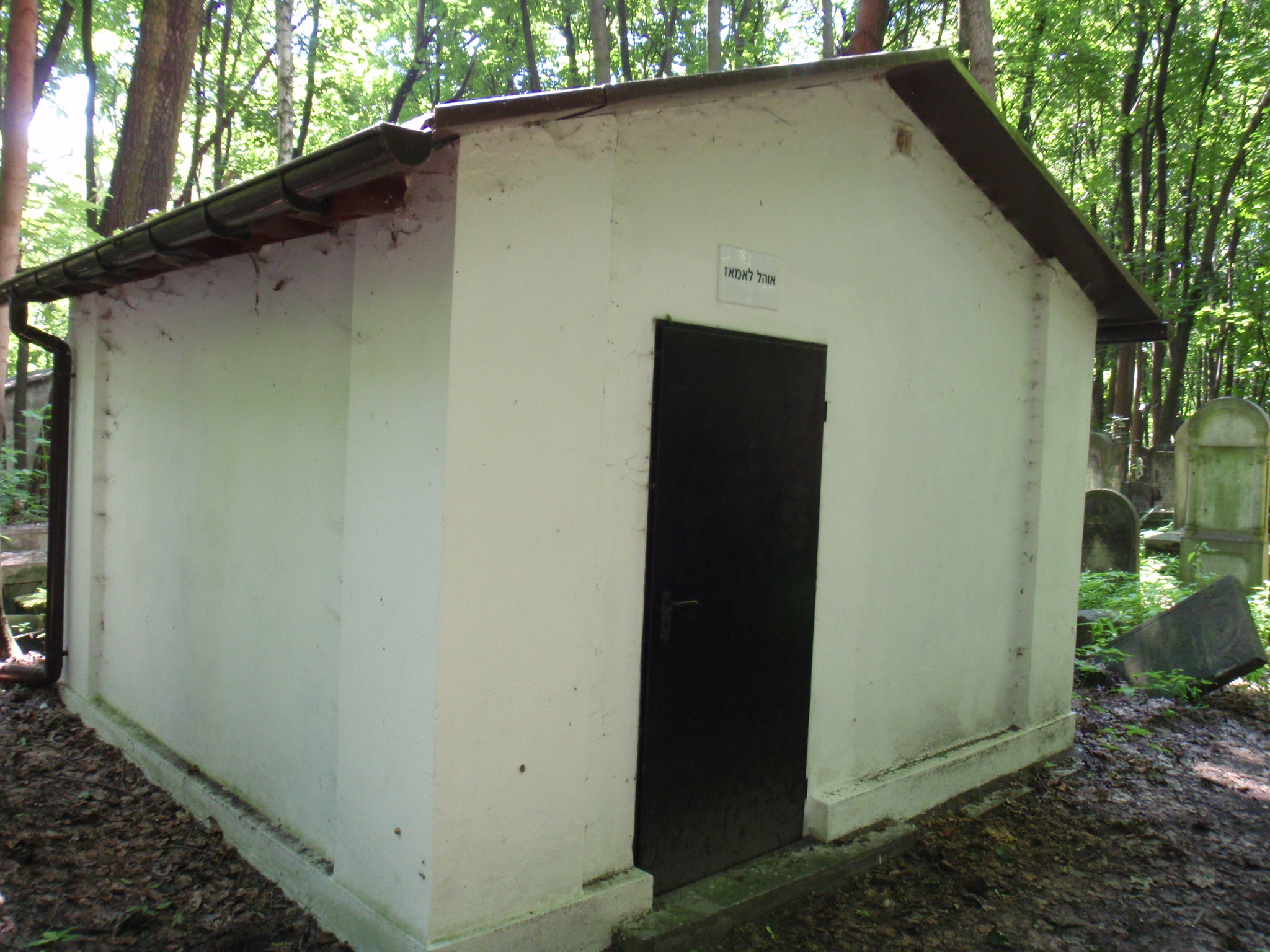 Ohel of Cwi Hirsz tzadik from Łomazy